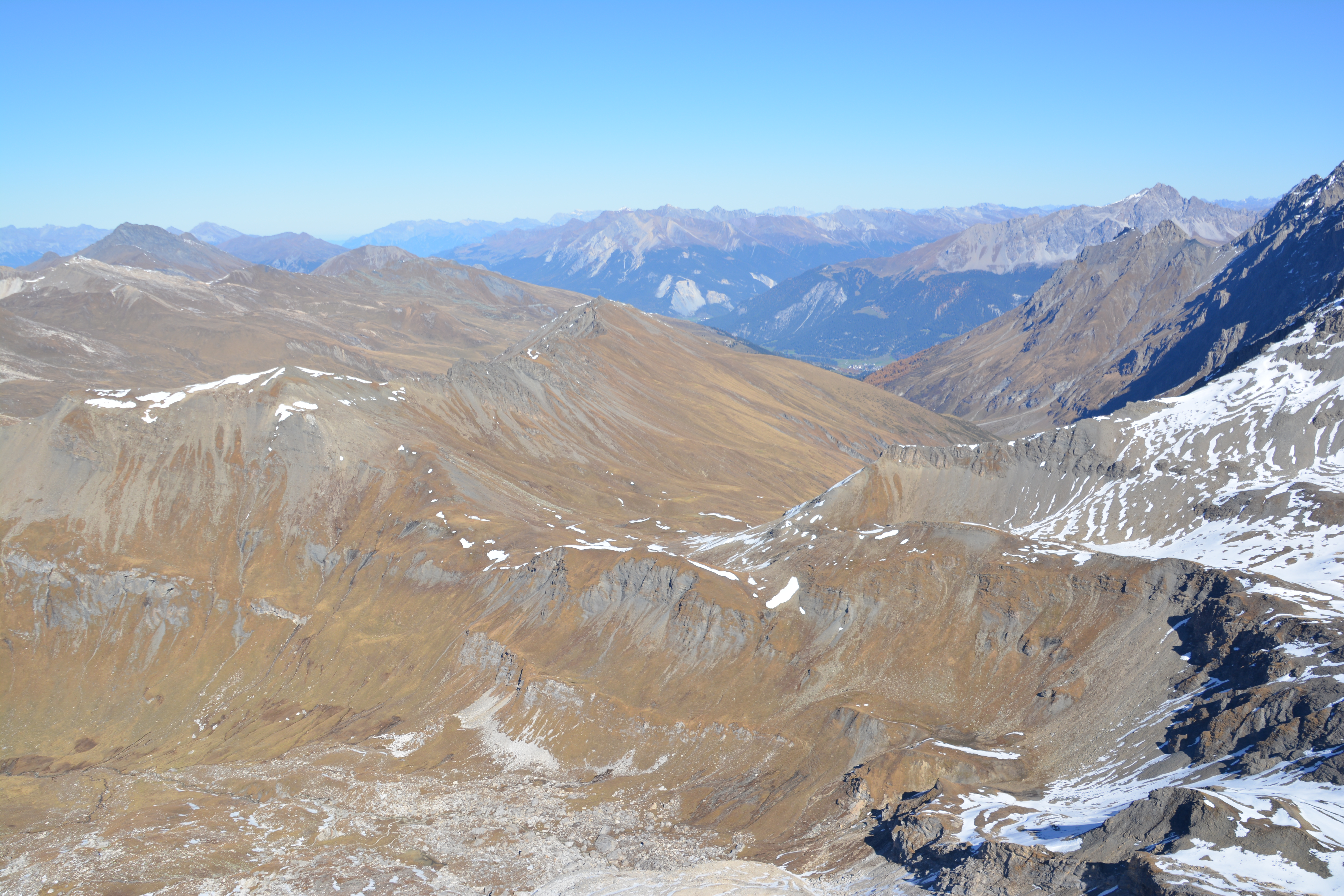 Fuorcla Starlera, picture taken from Usser Wissberg (Ferrera / Surses / Avers, Grison, Switzerland)